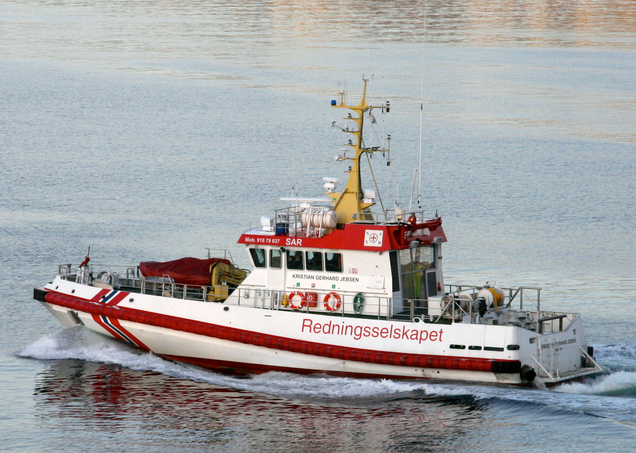 Norwegian Search and Rescue-vessel 'Kristian Gerhard Jebsen', sailing out from Bergen, western Norway, 14 January 2010. Picture taken from Nordnes in Bergen.